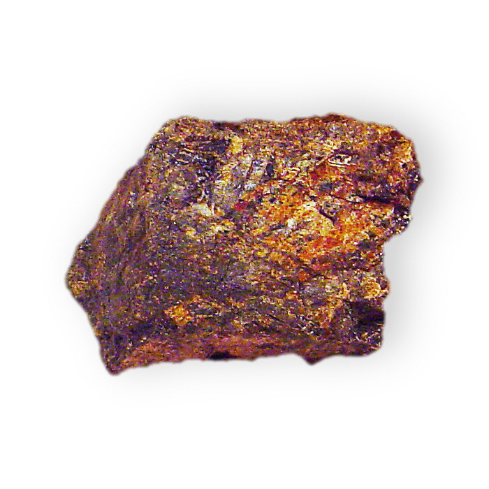 These mineral images are free to use how you wish.